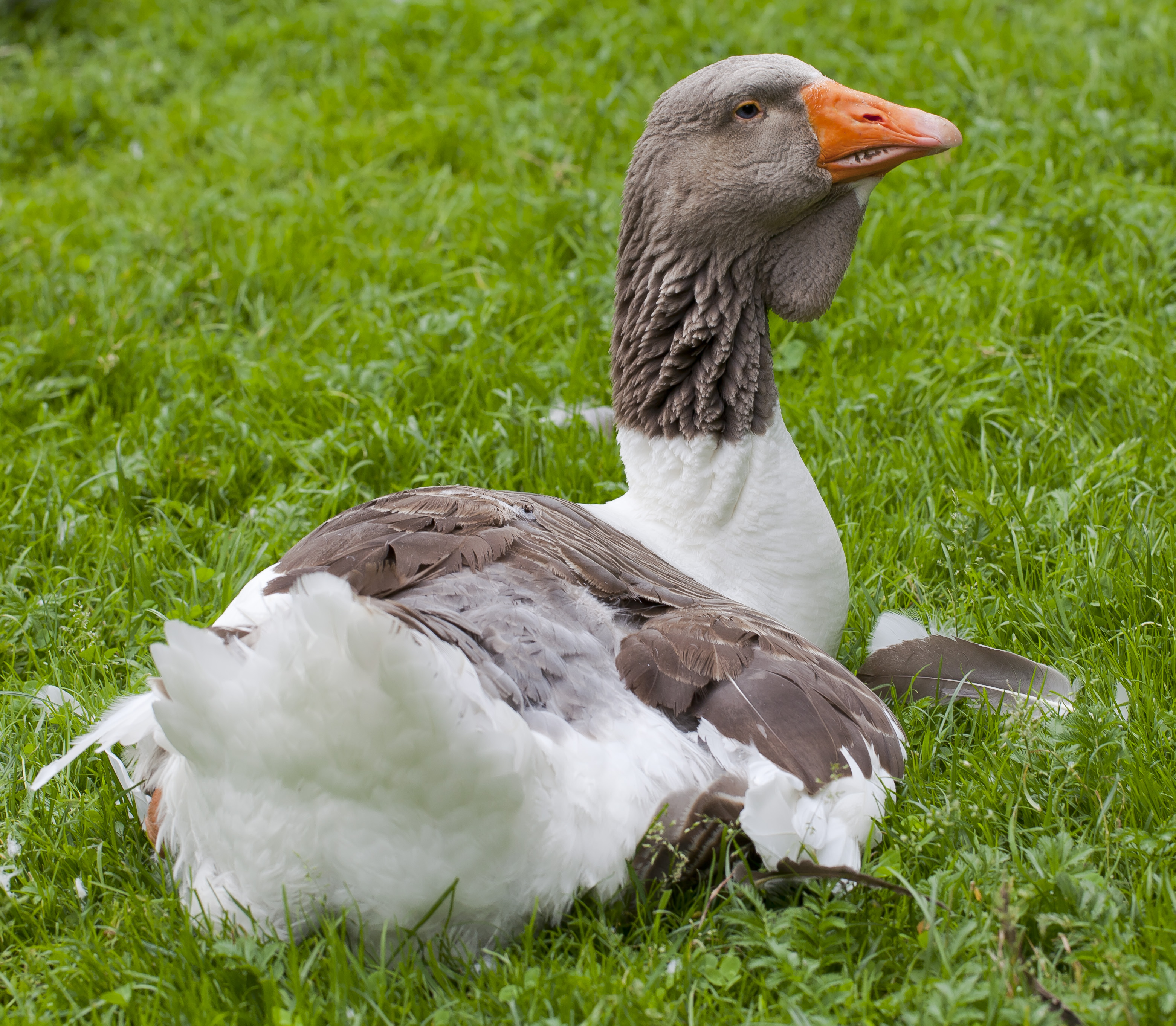 Ill Domesticated Greylag Goose (Anser anser domesticus) in Hellabrunn Zoo, Munich, Bavaria, Germany.